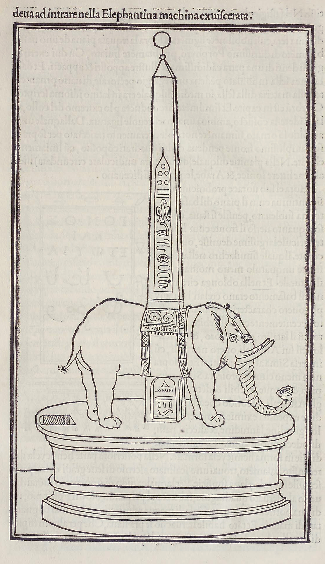 An Elephant bearing an Obelisk. Illustration from the "Hypnerotomachia Polifili" printed by Aldus Manutius about 1499.